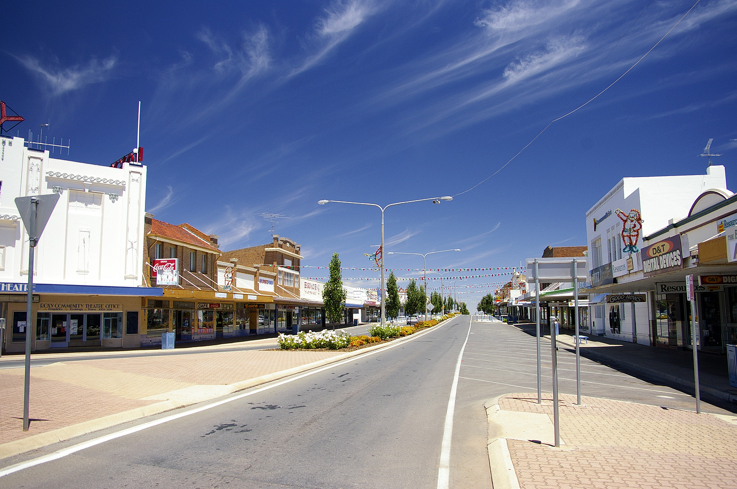 Pine Avenue is part of Leeton's main street and also forms part of Irrigation Way (Main Road 80).